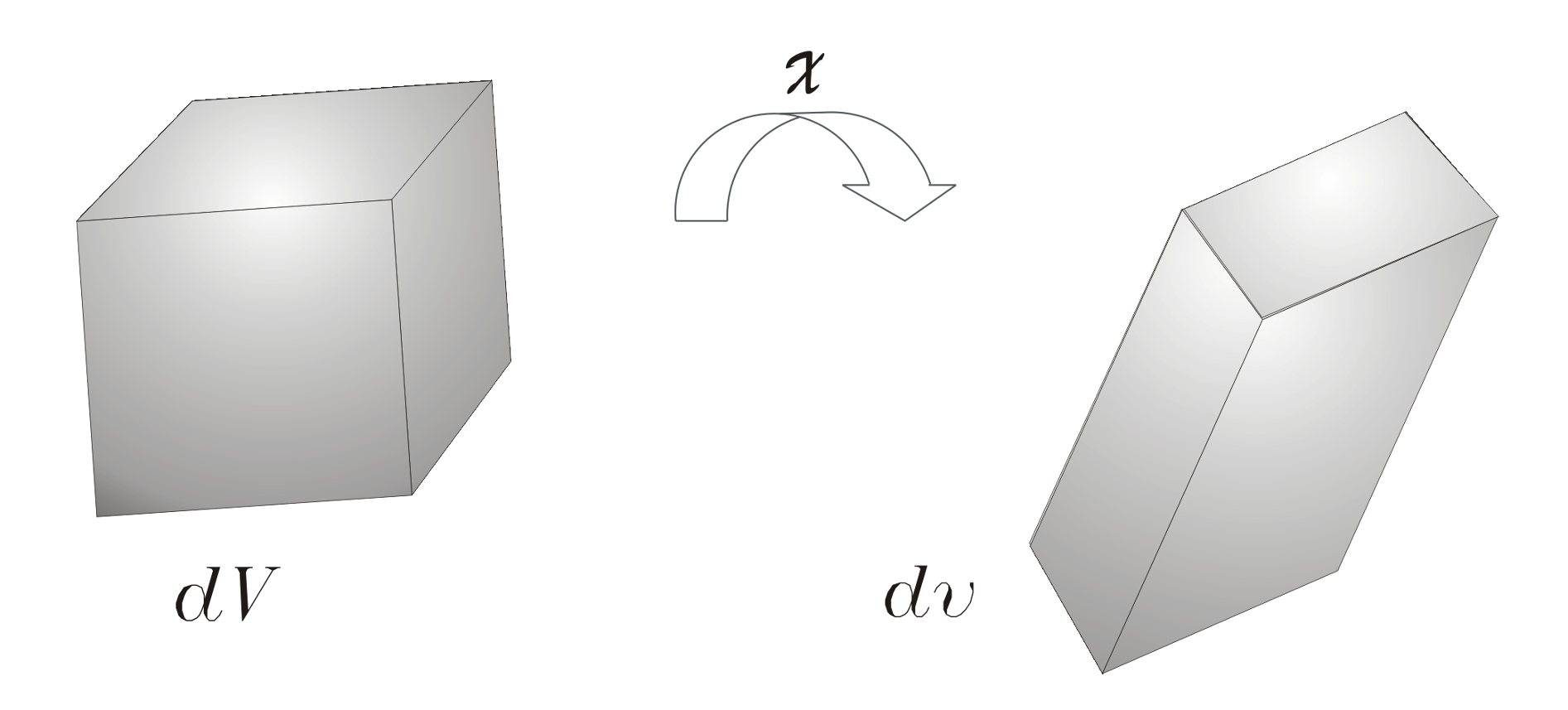 Local volume deformation in Cauchy continuum body